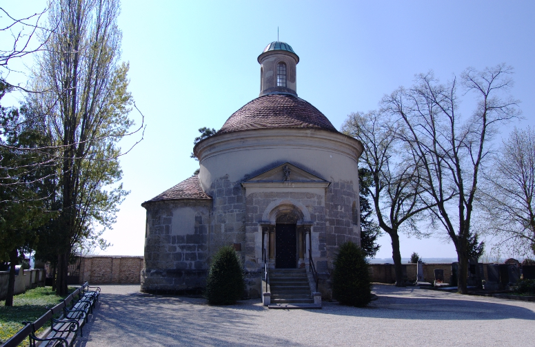 Graveyard and Karrner-Chapel Mistelbach, Lower Austria